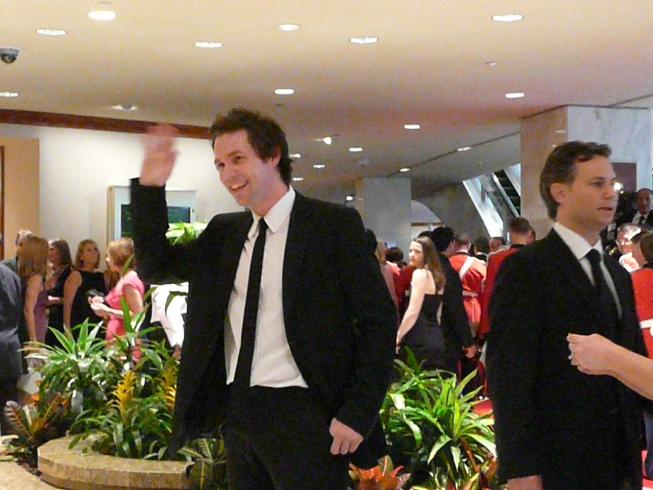 Michael Johns, at an appearance.